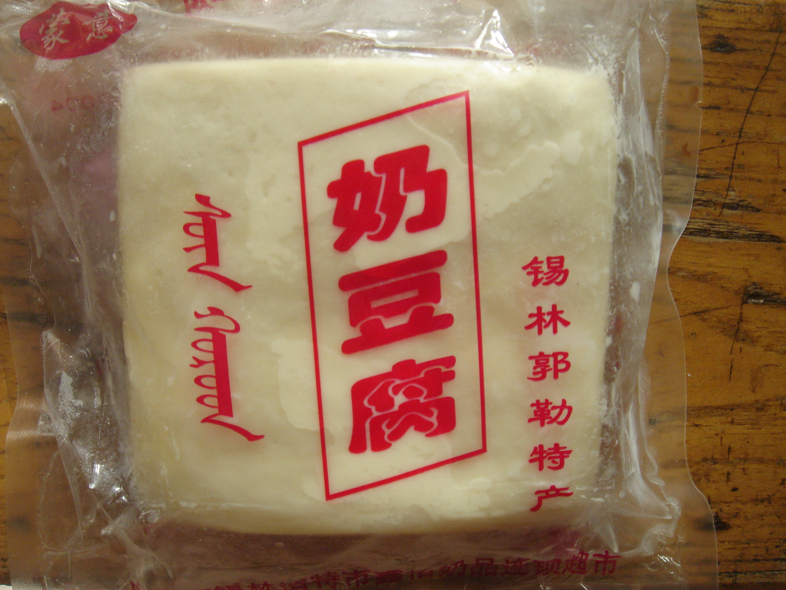 Milk tofu, product of Xilin Gol League, Inner Mongolia, China